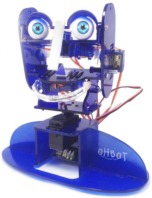 Ohbot Robot Head version 2 (2016), Stroud, UK.